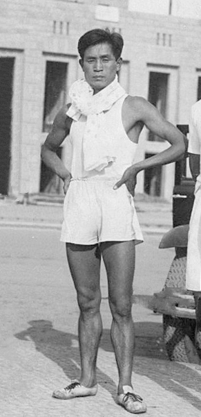 Fusashige Suzuki after a training ahead of the Berlin Olympic on June 19, 1936 in Berlin, Germany